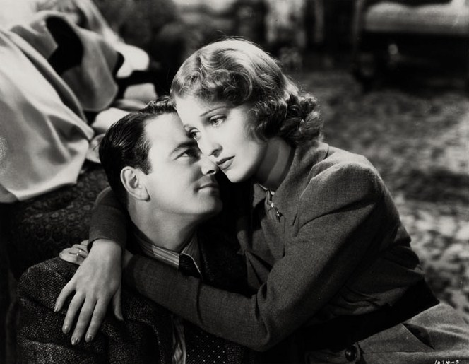 Lew Ayres and Jeanette MacDonald in the film Broadway Serenade (1939) - publicity still (cropped)